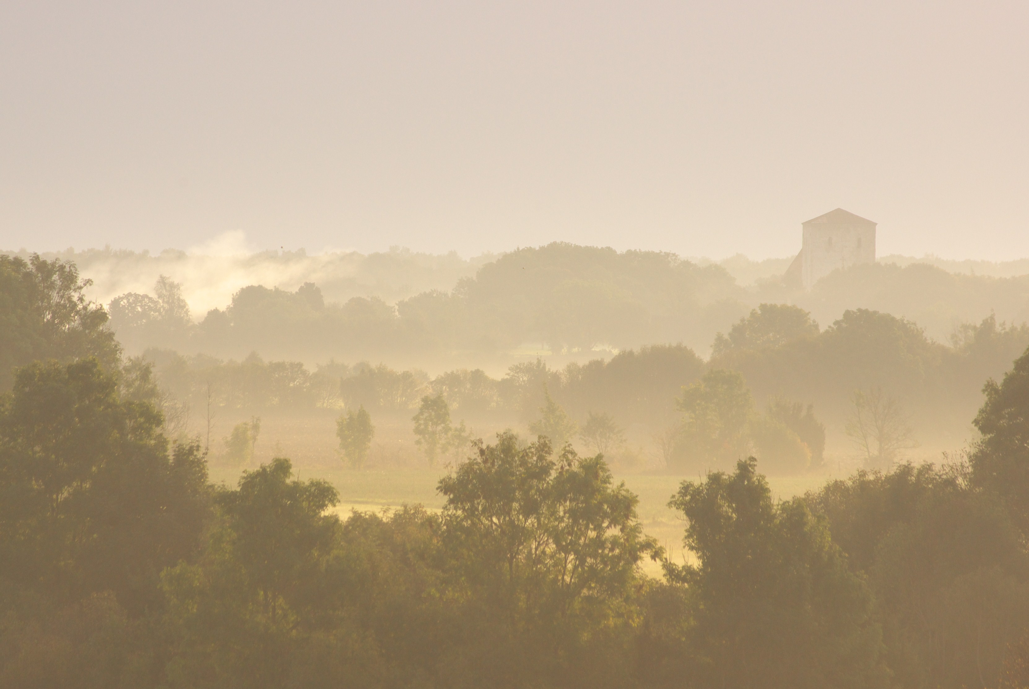 Pöide church in morning sunlight in Saaremaa Estonia.